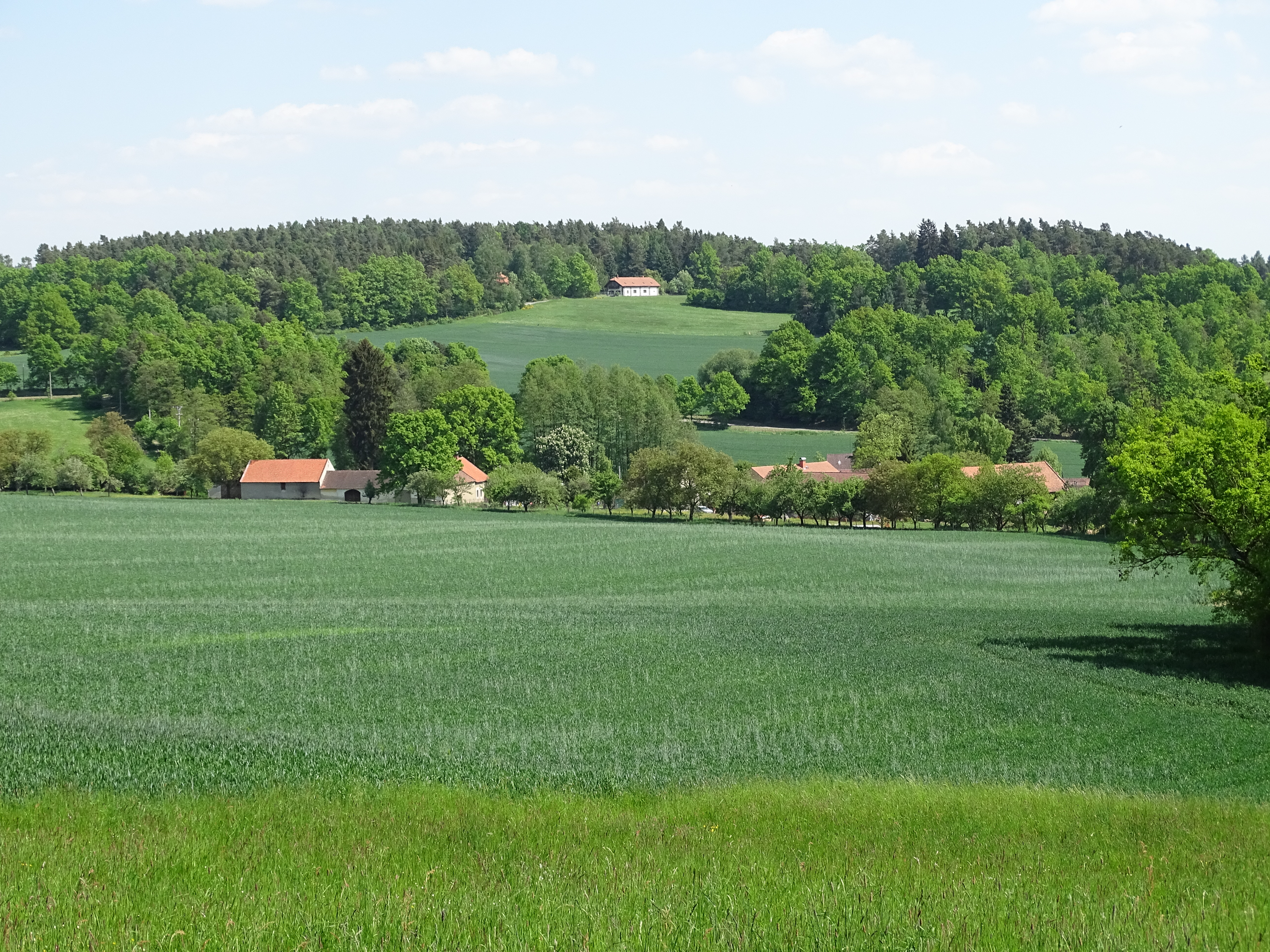 Štětkovice-Chrastava, Příbram District, Central Bohemian Region, Czech Republic.